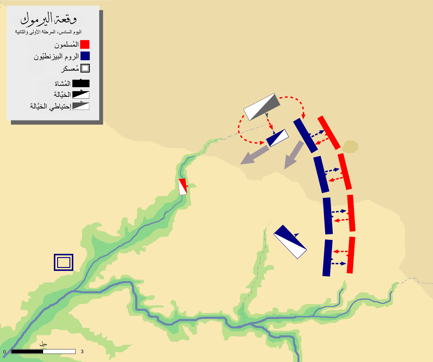 Battle_of_Yarmouk-day-6_phase-1&2